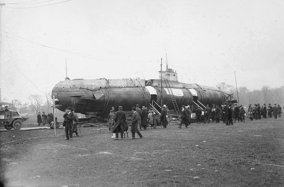 The German Imperial Navy submarine UC 5 on display at New York City (USA). UC 5 was a German Type UC I U-boat and commissioned on 19 June 1915 at Hamburg. She served in the First World War under the command of Herbert Pustkuchen (June 1915 - December 1915) and Ulrich Mohrbutter (December 1915 - April 1916). UC 5 had an impressive career, with 29 ships sunk for a total of 36,288 tons on 29 patrols. She ran aground on Shipwash Shoal while on patrol on 27 April 1916 (51°59′N 1°38′E) and was scuttled, but the charges failed to explode. Her crew were captured by the British destroyer HMS Firedrake and the submarine was displayed at Temple Pier on the Thames river, and later New York for propaganda purposes.